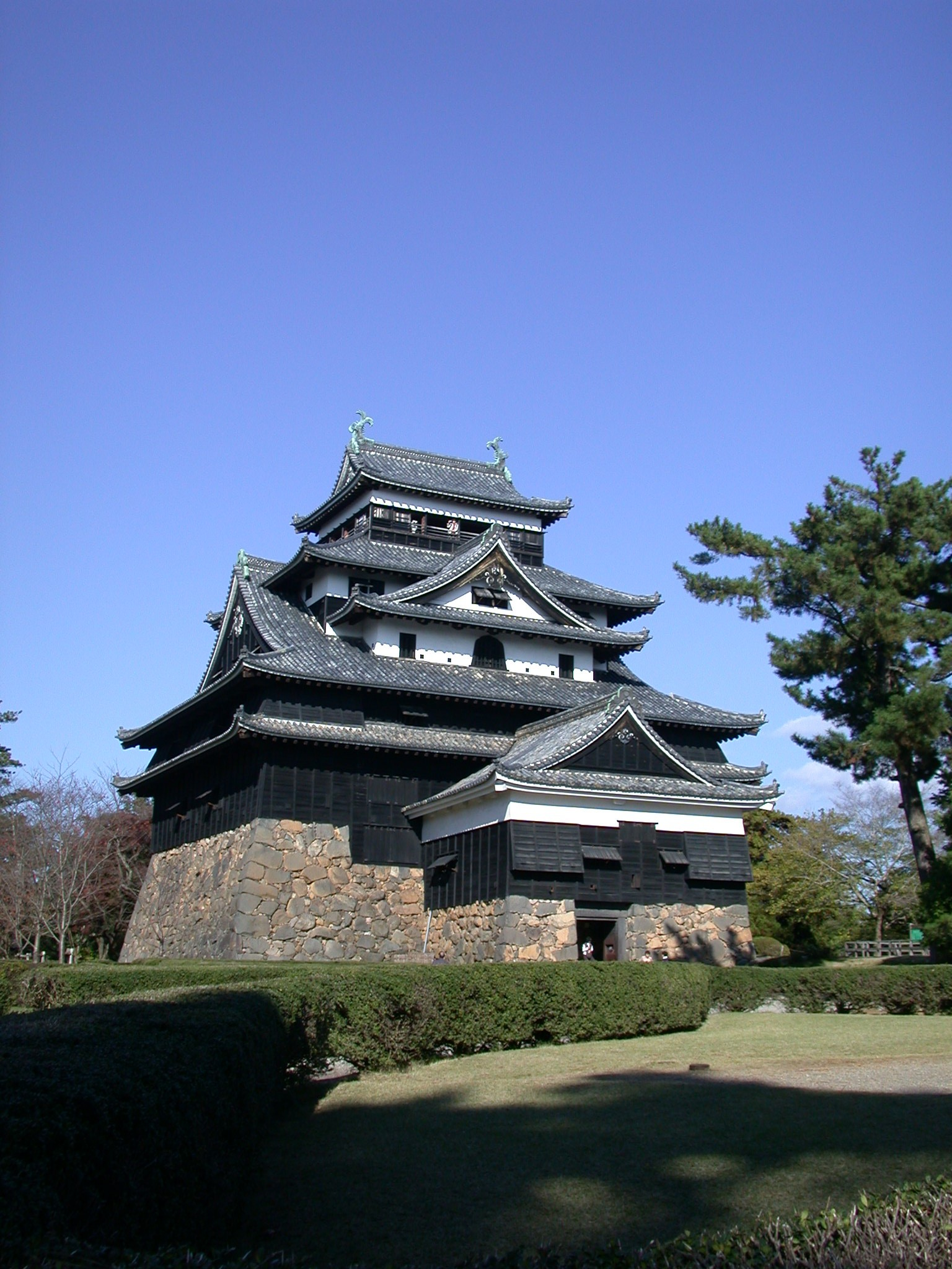 the Keep of Matsue Castle